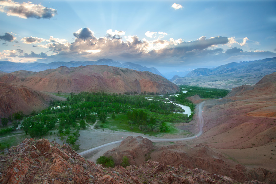 River Chuija